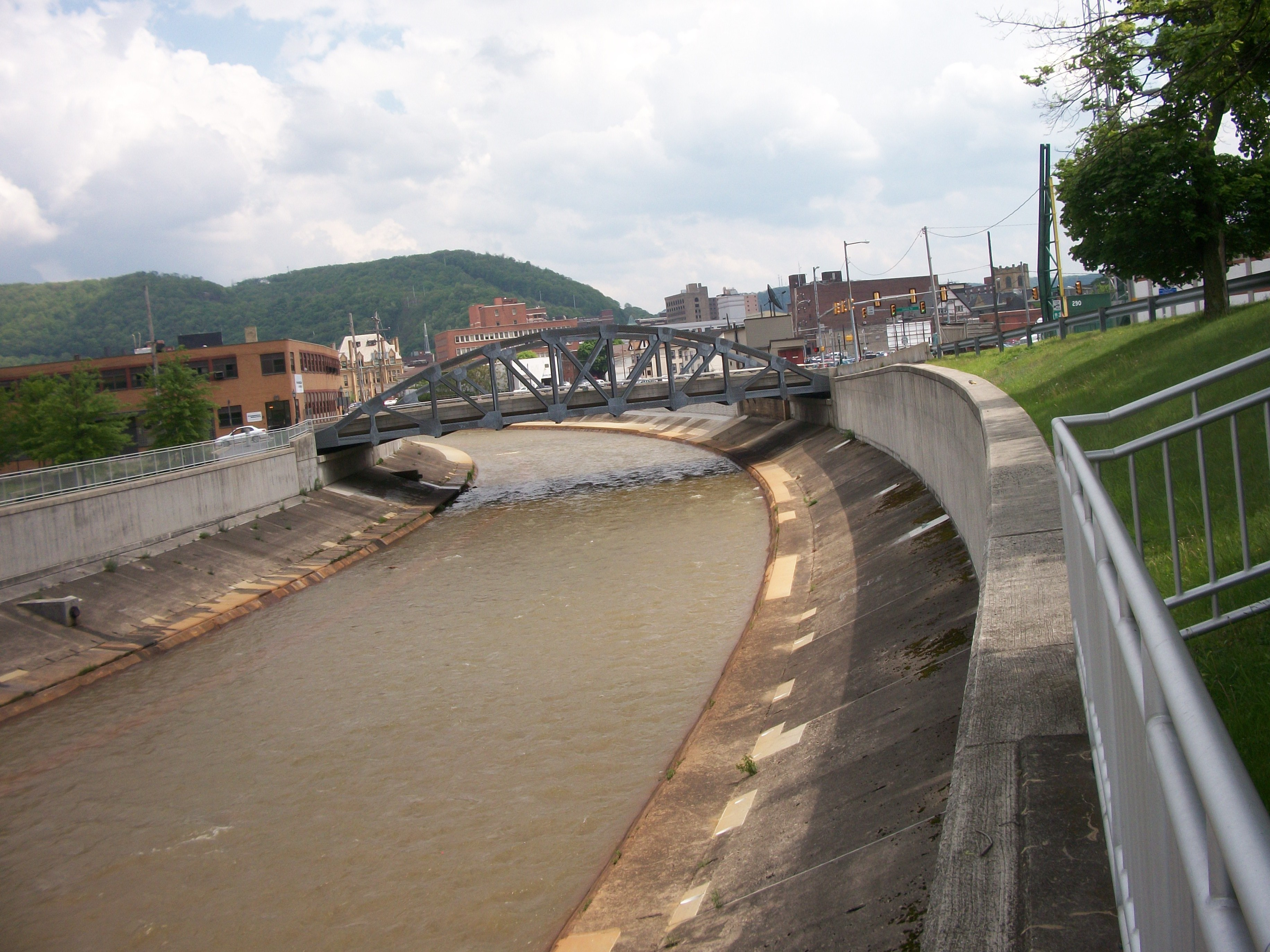 Little Connemaugh River. Taken May 14, 2010. Misidentified in the title as the Stonycreek by a hasty error.